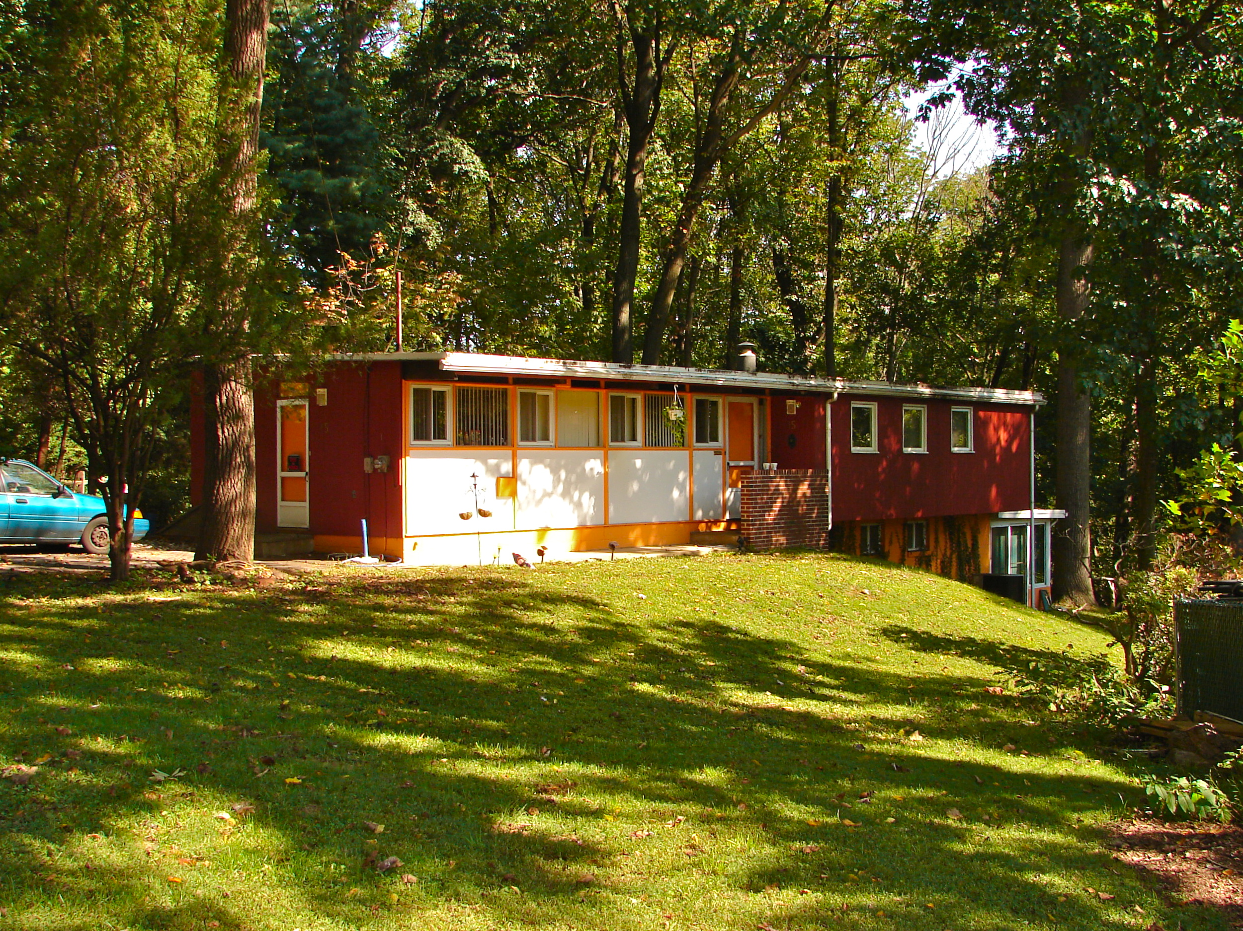 House on Lonford Street, near Holme Ave., in NE Philadelphia. Area known as Greenbelt Knoll, first integrated housing in Philadelphia. Consulting architects included Louis Kahn. Pennsylvania State Historical Marker (not visible).